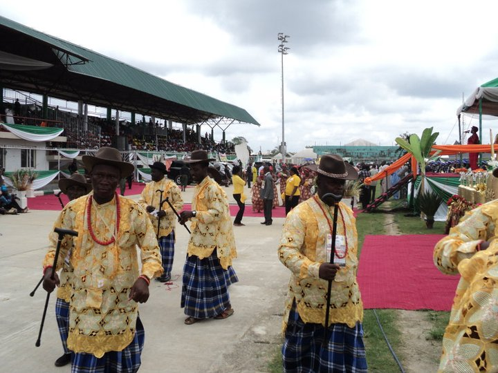 Pictures from the closing ceremony of National Festival of Arts and Culture (NAFEST) 2010 in Uyo, Akwa Ibom state Nigeria. This is an image of Cultural Fashion or Adornment from Nigeria